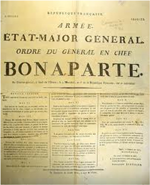 Bonparte order to his Army, printed in Egypt